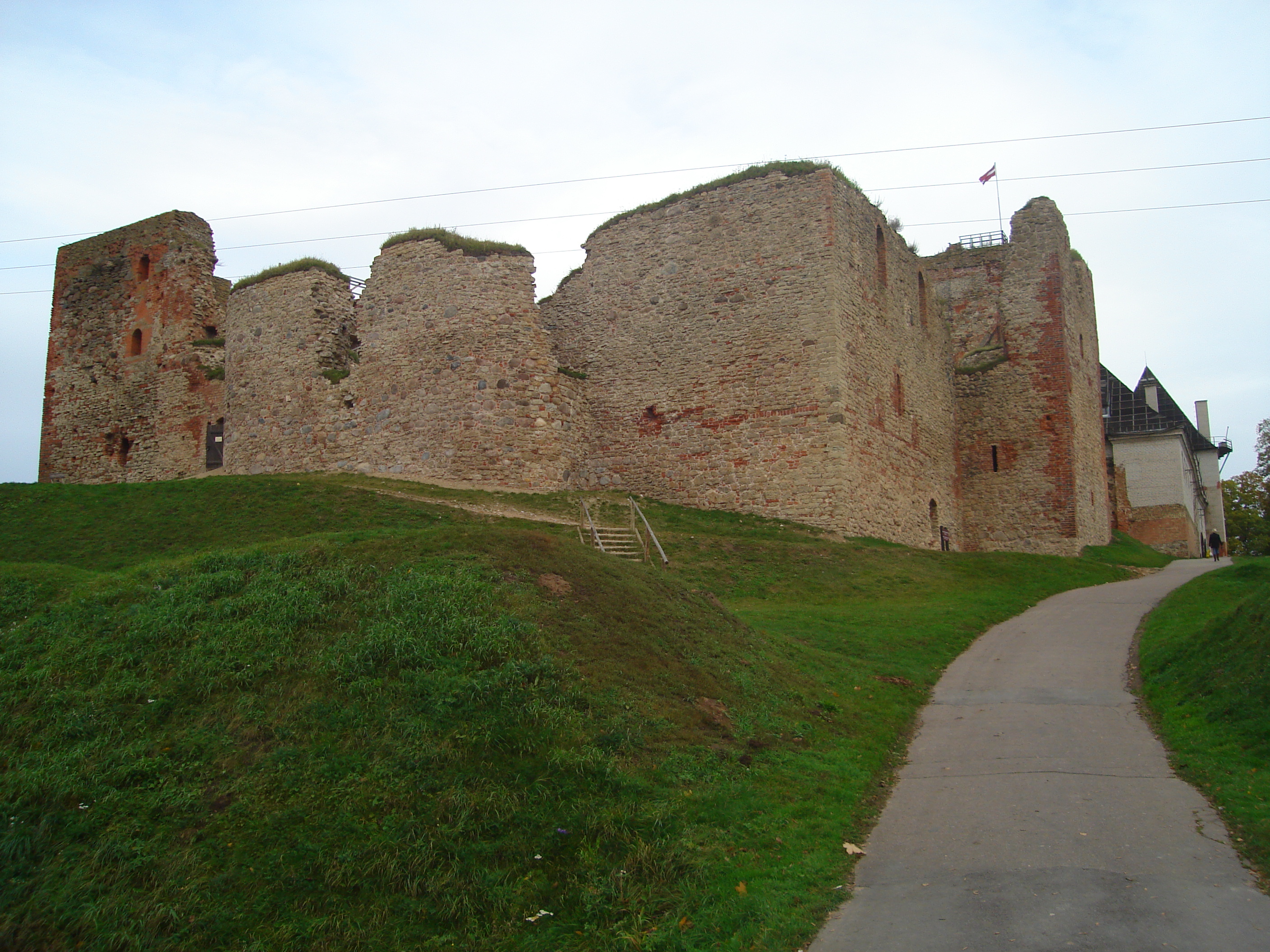 Picture of Bauska Castle